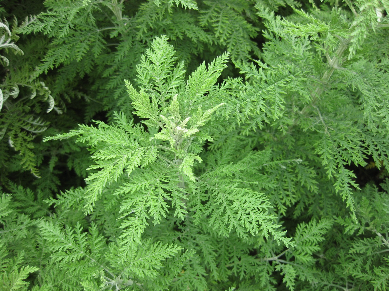 Photographed at the Royal Botanic Gardens Sydney (Australia) in January